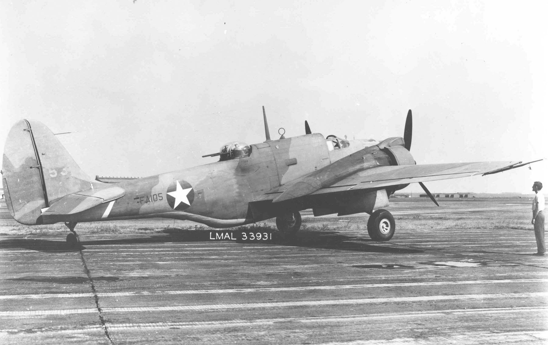 A USAAF Martin A-30 (Baltimore Mk IIIA) with the RAF serial number "FA105". Note this aircraft has the Martin dorsal turret.